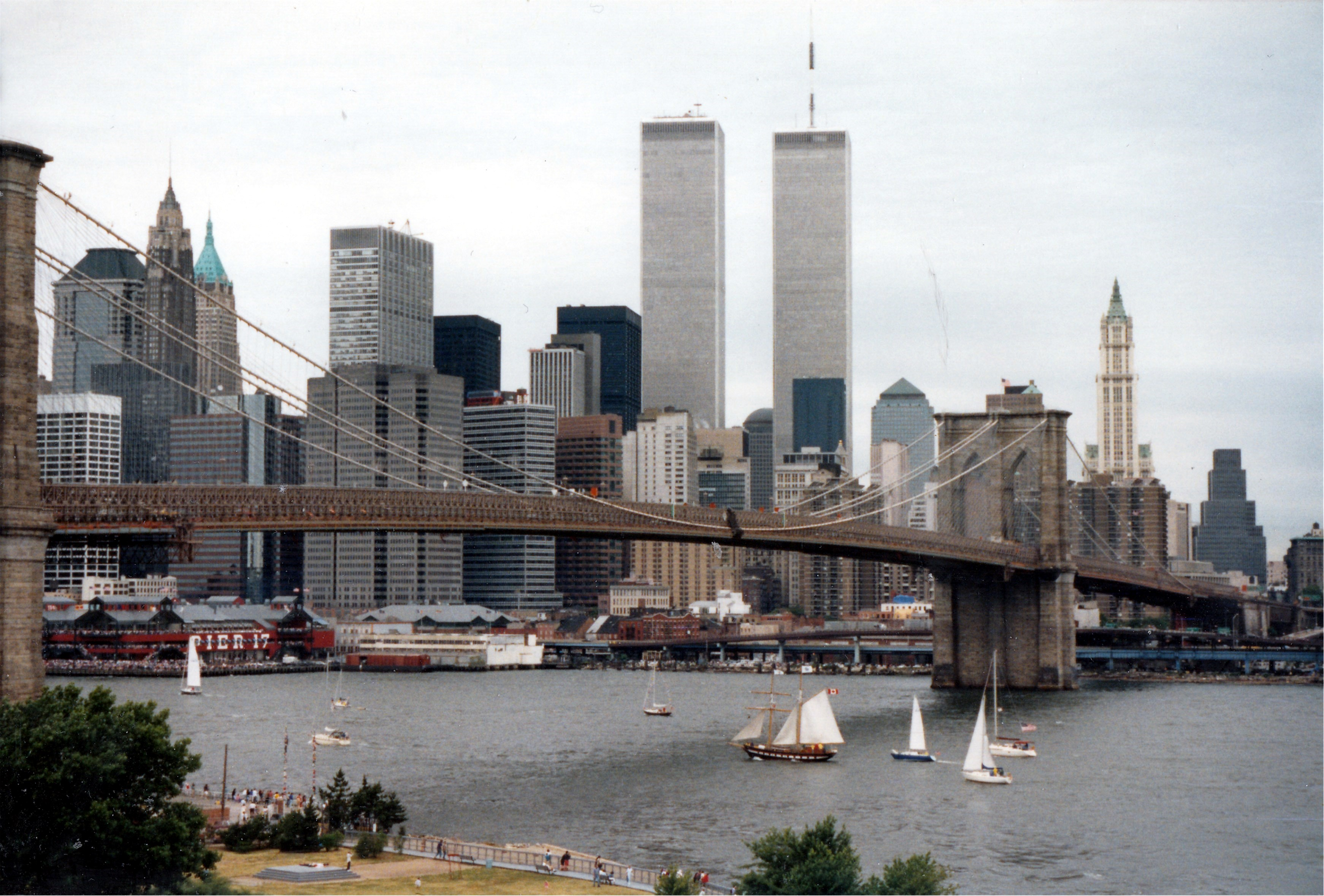 World Trade Center Cityscape in 1995 - Day time view from the sixth floor of One Main Street,Brooklyn, a former New York State Department of Labor office building.